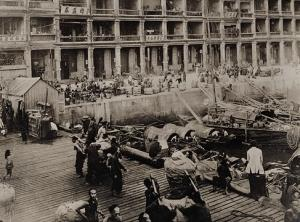 Hong Kong waterfront during the seamen's strike, 1922.